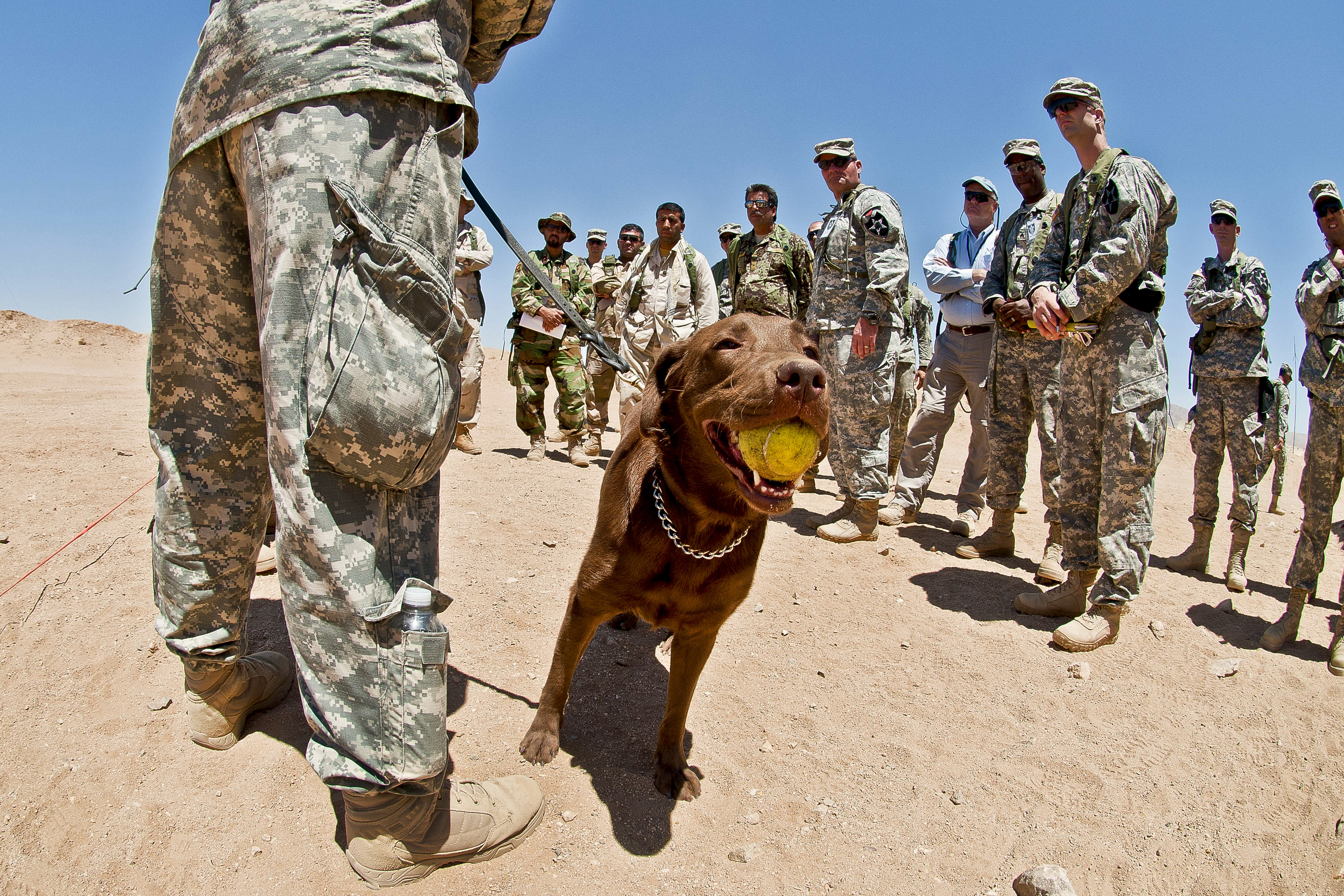 Coba, a 3-year-old chocolate lab trained to detect tactical explosives, chews on a tennis ball as David Sheffer, her handler and dog trainer, explains Coba's capabilities at the National Training Center on Fort Irwin, Calif., June 14, 2012. Soldiers assisgned to the 2nd Division's 4th Stryker Brigade, role players and government civilians watched the demonstration. Brigade members will select handlers to lead a similar dog in Afghanistan when they deploy this fall.